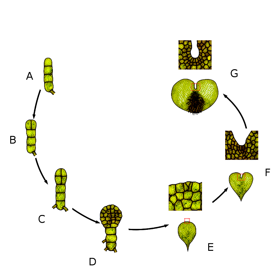 Drynaria lends its name to a certain type of prothallial germination, the 'Drynaria type', observed in several other ferns. In this type, the spores germinate into a germ filament composed of barrel-shaped chlorophyllous cells with one or more rhizoids at the base cell. The tipmost cell divides repeatedly by cross-walls, forming a broad spatulate prothallial plate. One of the cells at the top margin of the prothallus then divides obliquely when it has 5, 10, or more cells across its width. This results in an obconical meristematic cell. Division by this type of cell is parallel to wach other and perpendicular to the rest of the cells, forming rows. This eventually results in the formation of a notch at the anterior edge of the prothallus, giving it a roughly heart-shaped appearance.